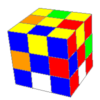 The superflip position